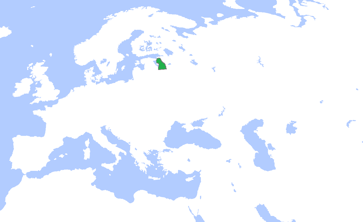 Locator map of Pskov Republic, c. 1400. (Partially based on Atlas of World History (2007) - The World 1300-1400, map)